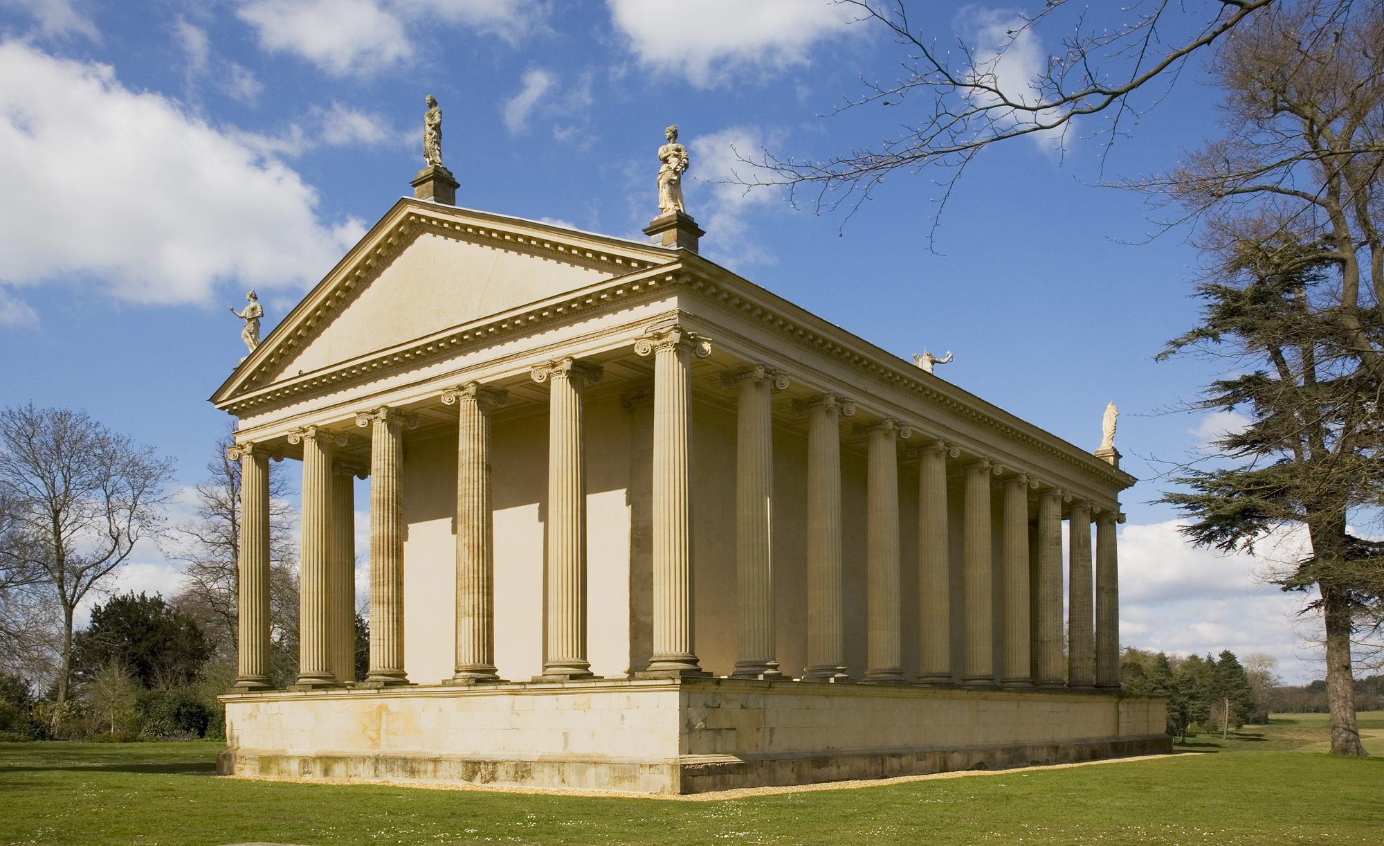 The Temple of Concord and Victory, Stowe, Buckinghamshire, England